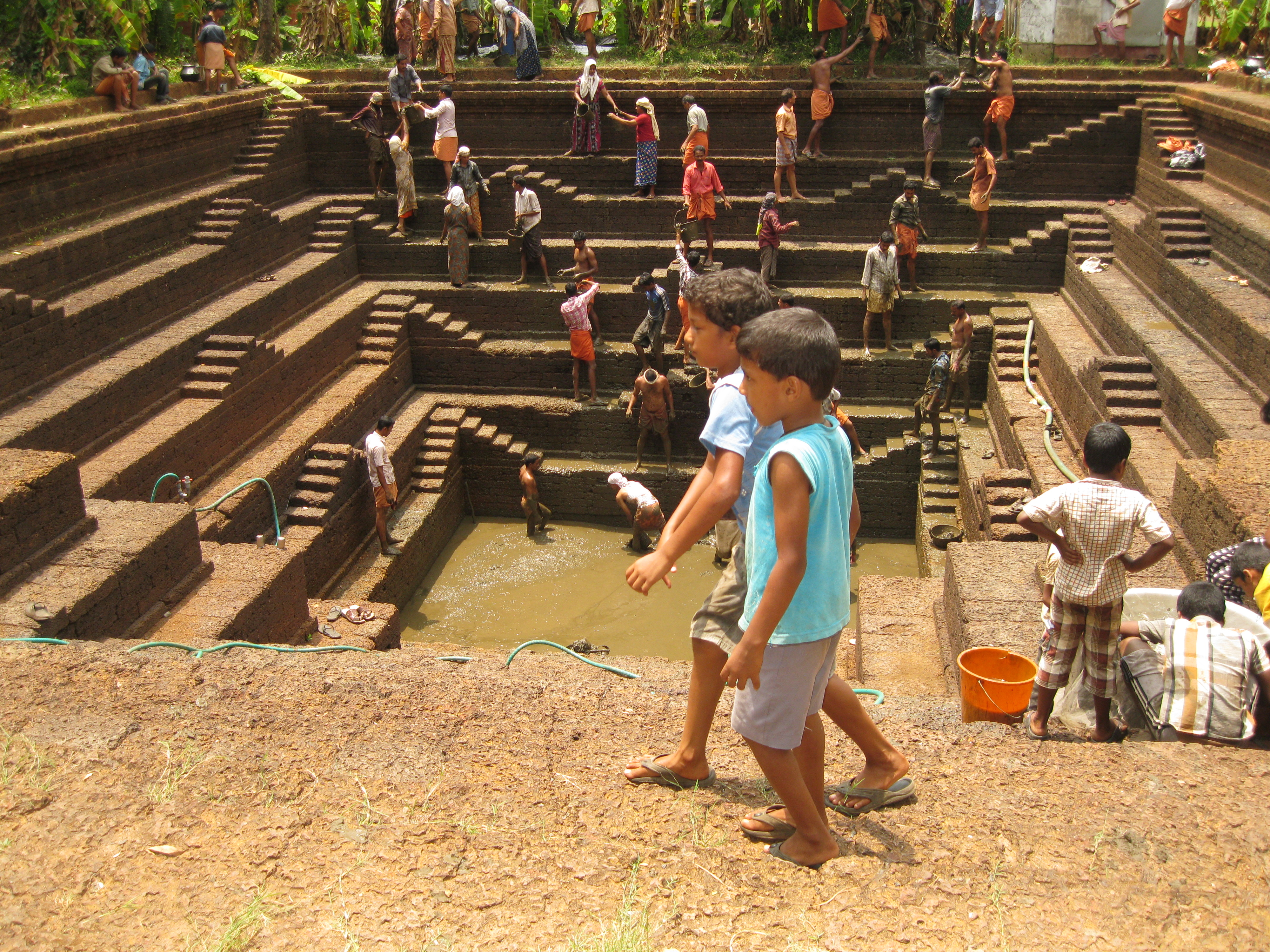 temple pond at Blathur moothedam devasvam, cleaning